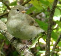 Green Warbler Finch at Santa Cruz Is. Galápagos